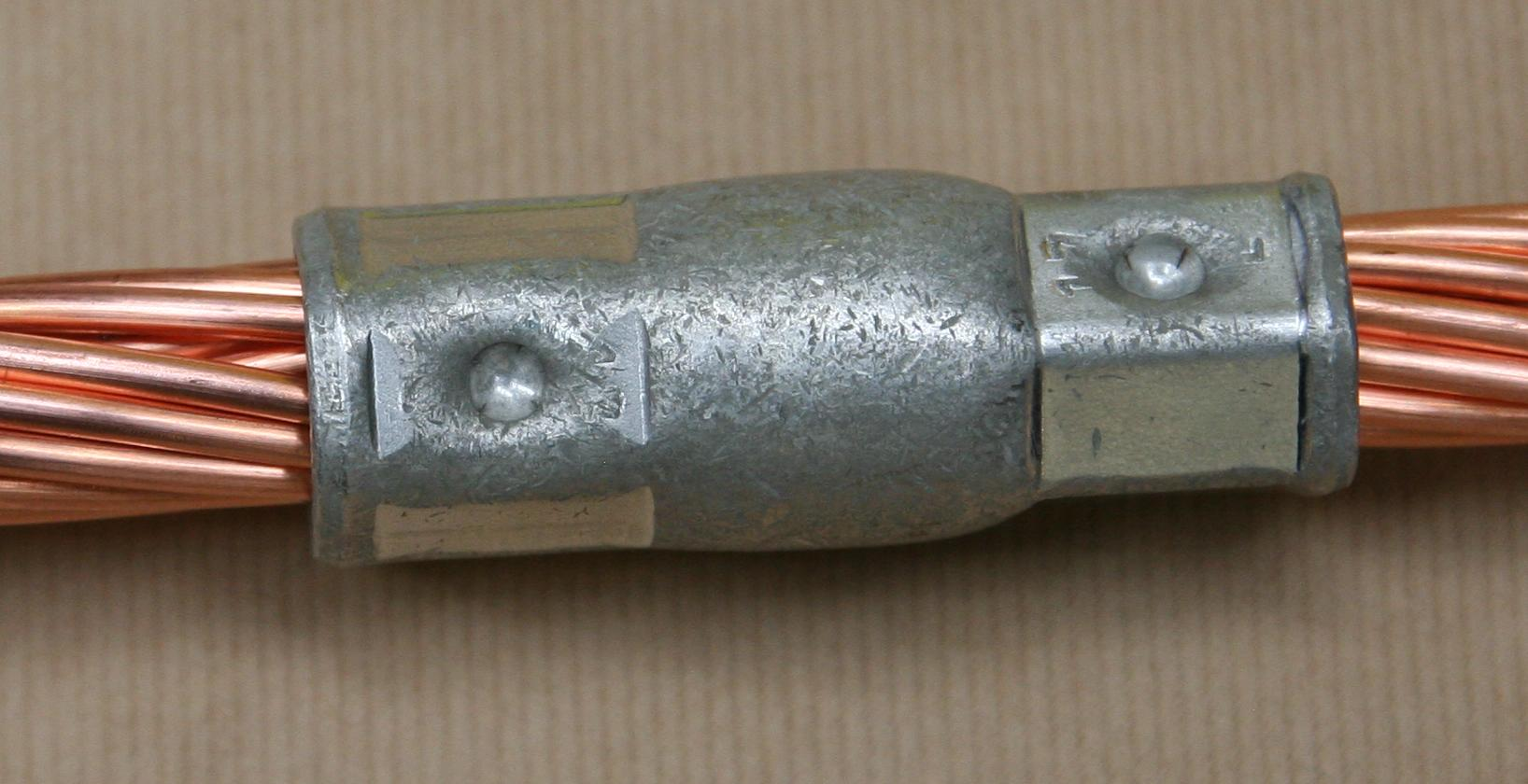 Two 70mm² cables are connected by a crimp. The right side is crimped correctly whilst at the left side the dies are too big for the used crimp and pressure is unsufficient.